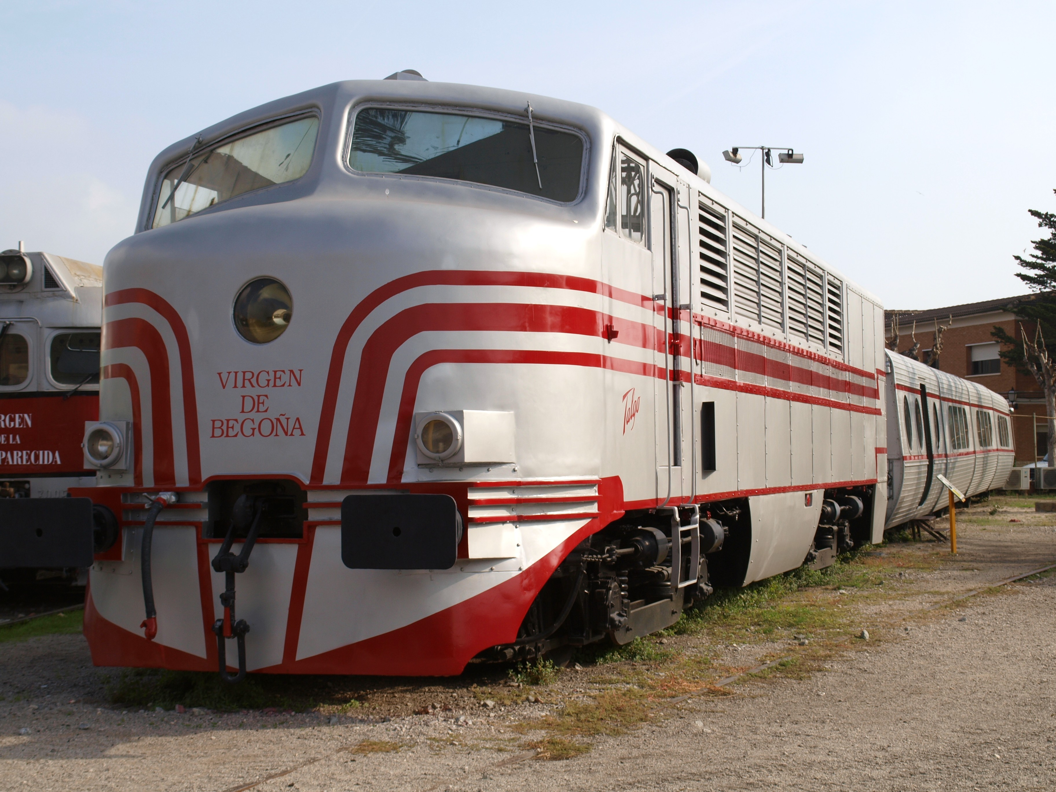 Train Talgo II with 350.003 locomotive "Virgen de Begoña". Railroad Museum Vilanova i la Geltrú.